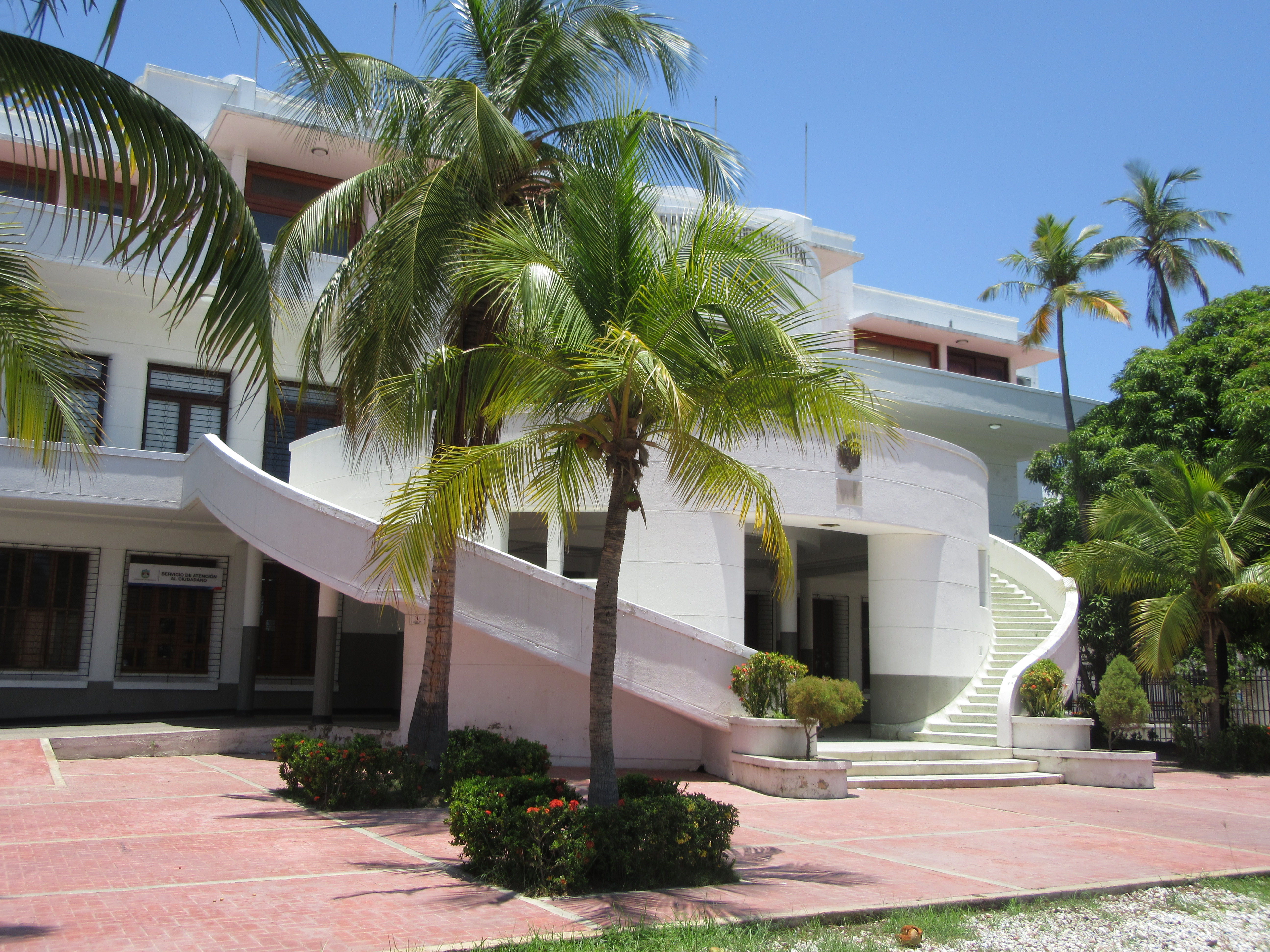 Santa Marta